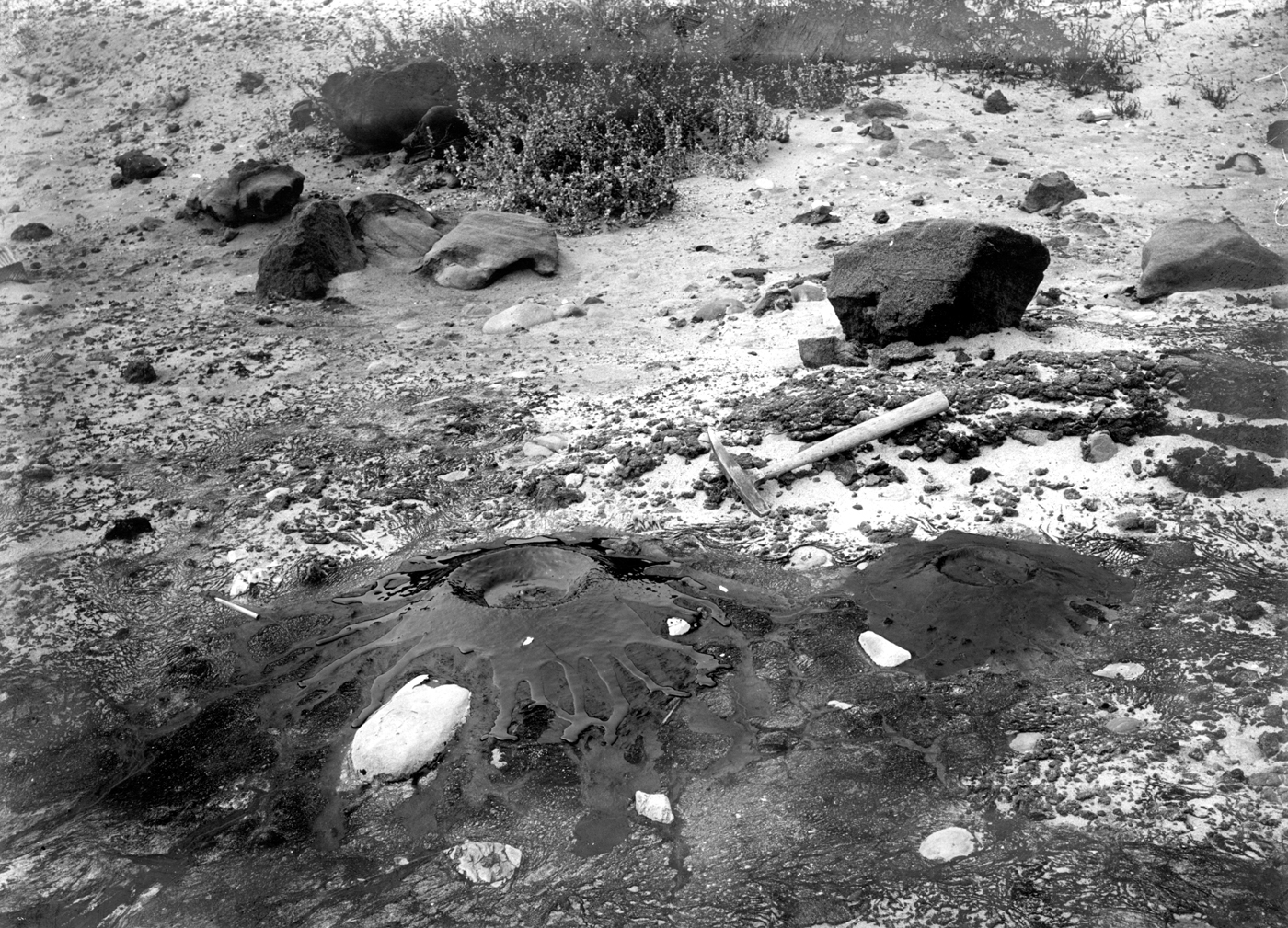 A tar volcano in the Carpinteria Asphalt mine, showing how oil exudes from joint cracks in the upturned Monterey shale forming the floor of mine. Santa Barbara County, California. October 16, 1906. Plate 3-A in U.S. Geological Survey. Bulletin 321. 1907. Image file: /htmllib/btch347/btch347j/btch347z/arn00533.jpg